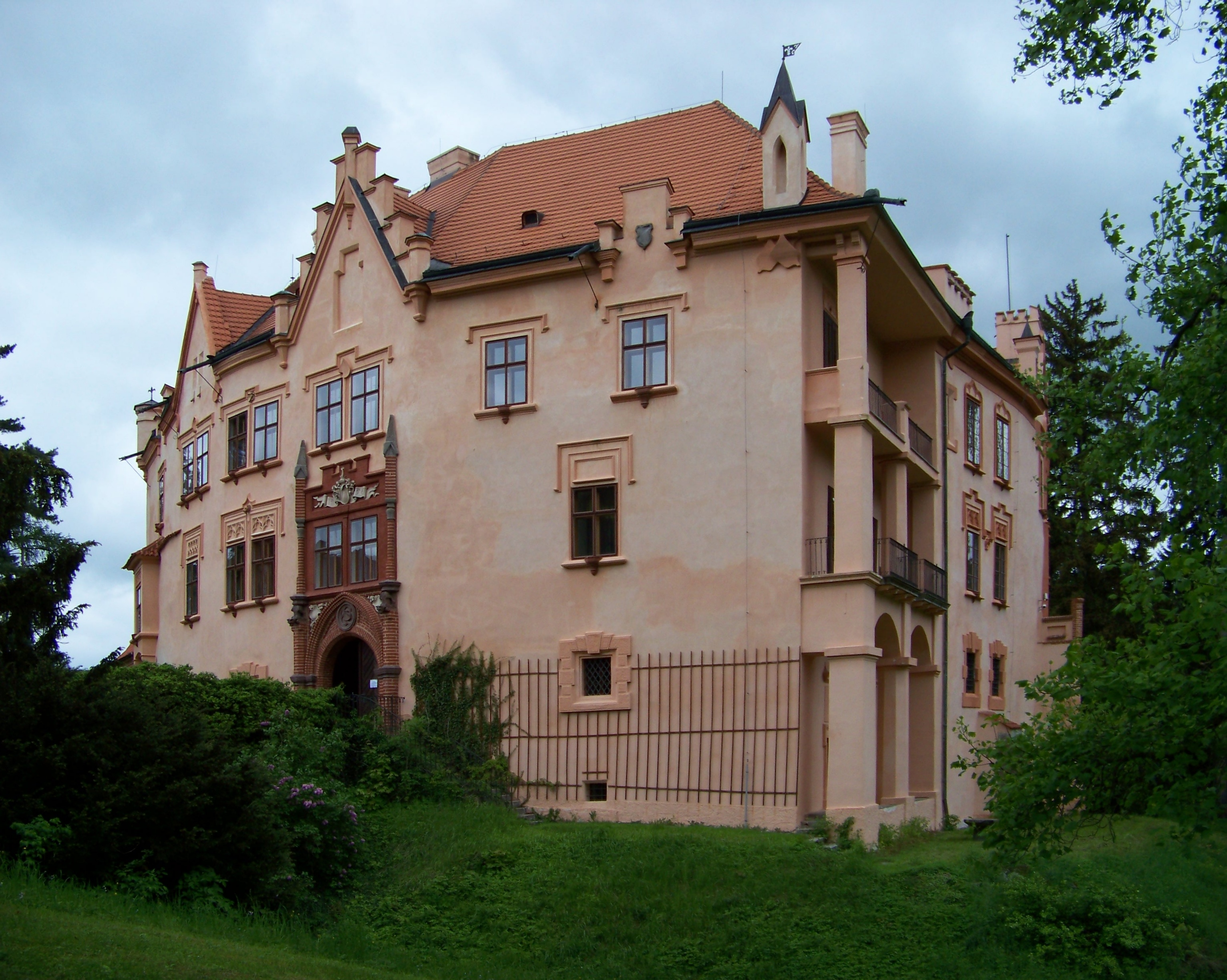 Vrchotovy Janovice, Benešov District, Central Bohemian Region, the Czech Republic. The castle.